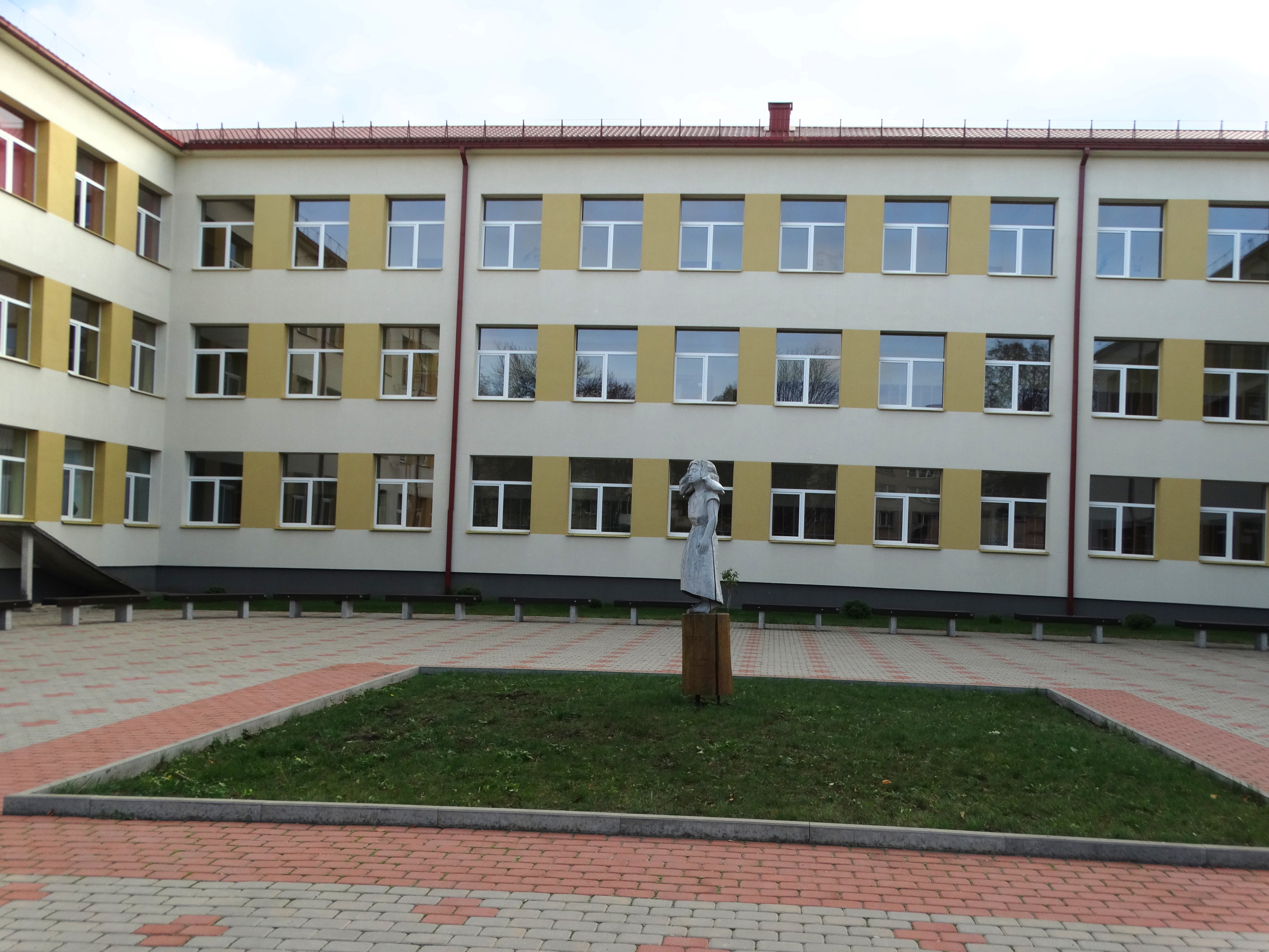 Alytus school Dzūkija, Lithuania